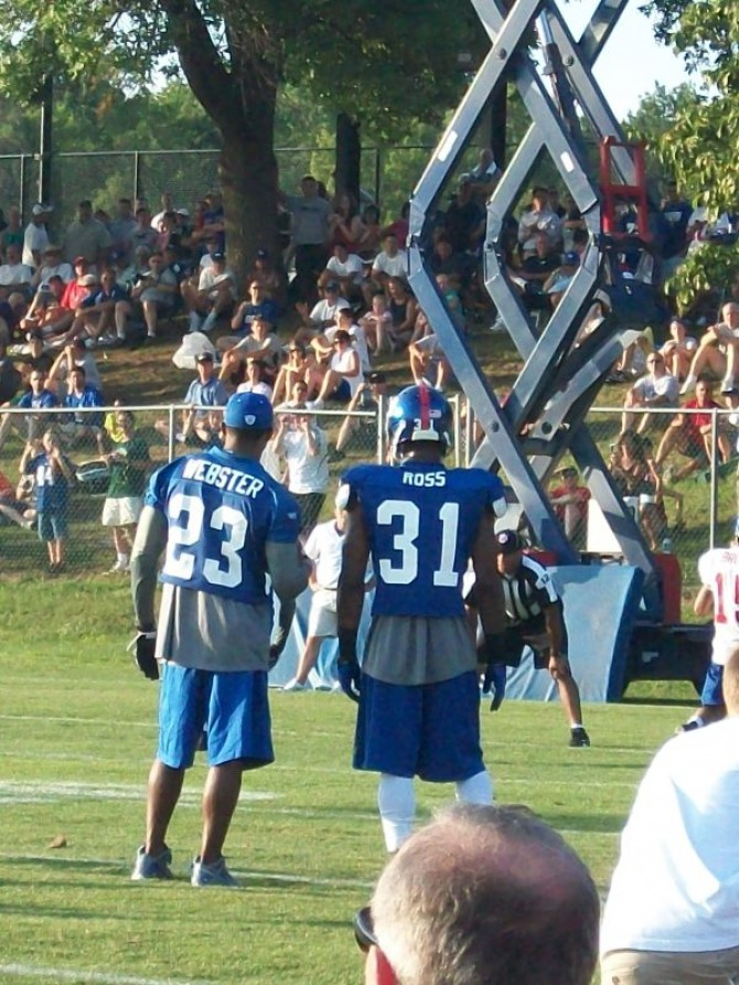 Aaron Ross and Corey Webster, New York Giants.